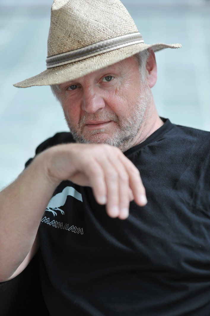 Vlatnin Perko is a slovenian Director of Photography